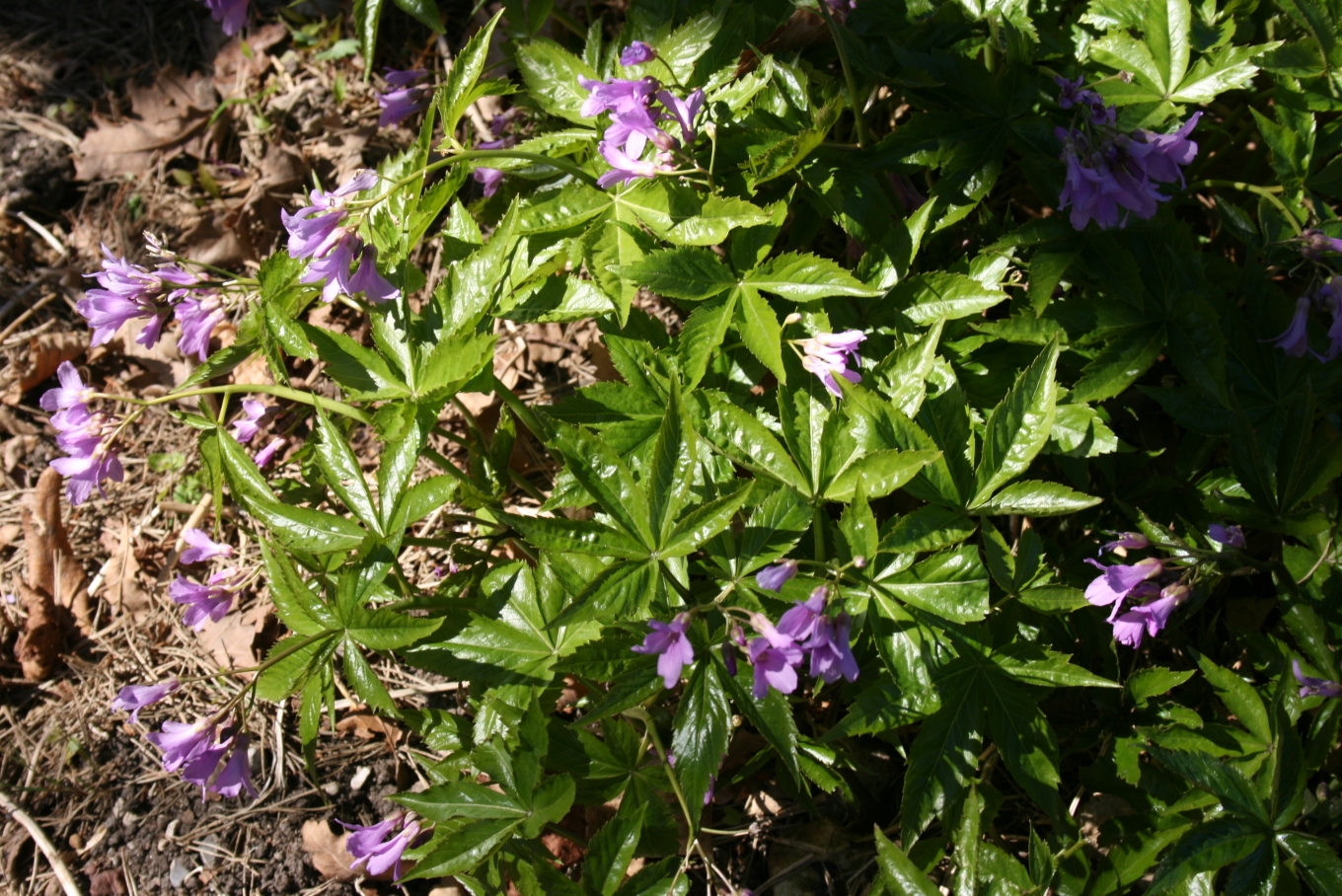 Cardamine pentaphyllos: Habitus